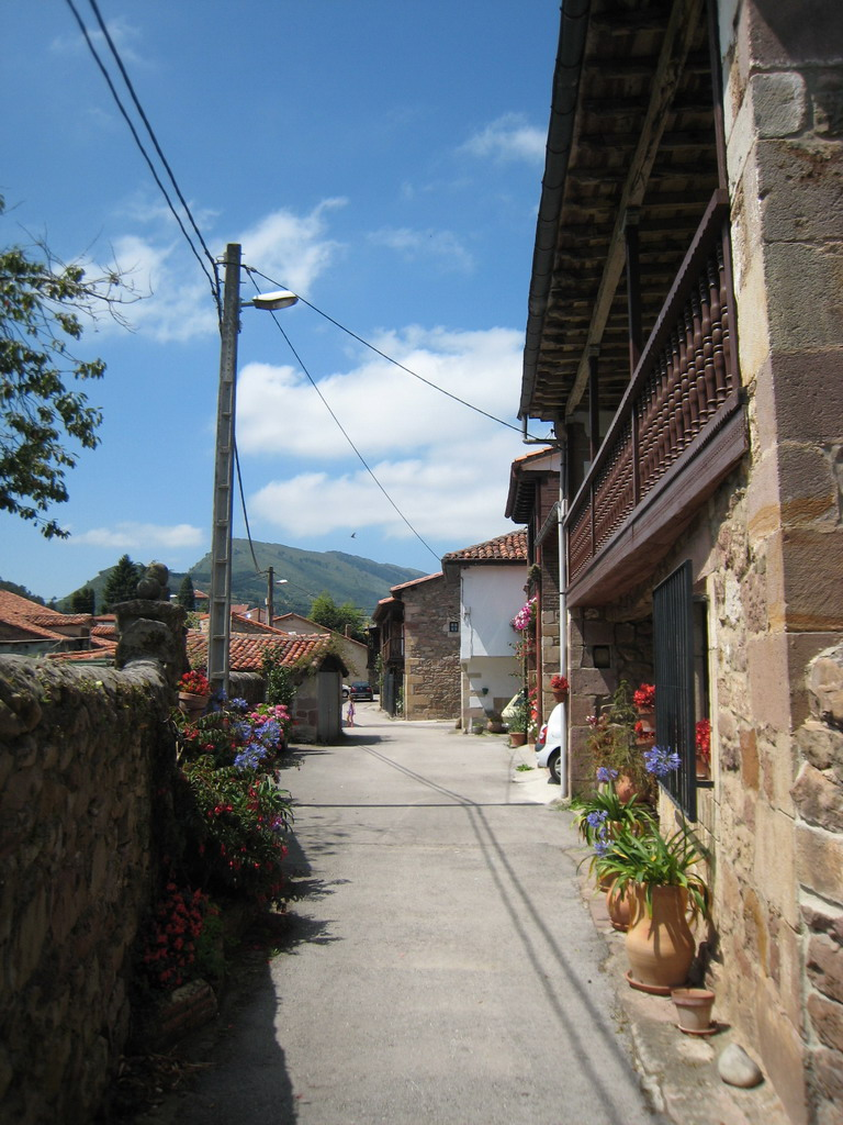 Cos (Cantabria) Tipical Street